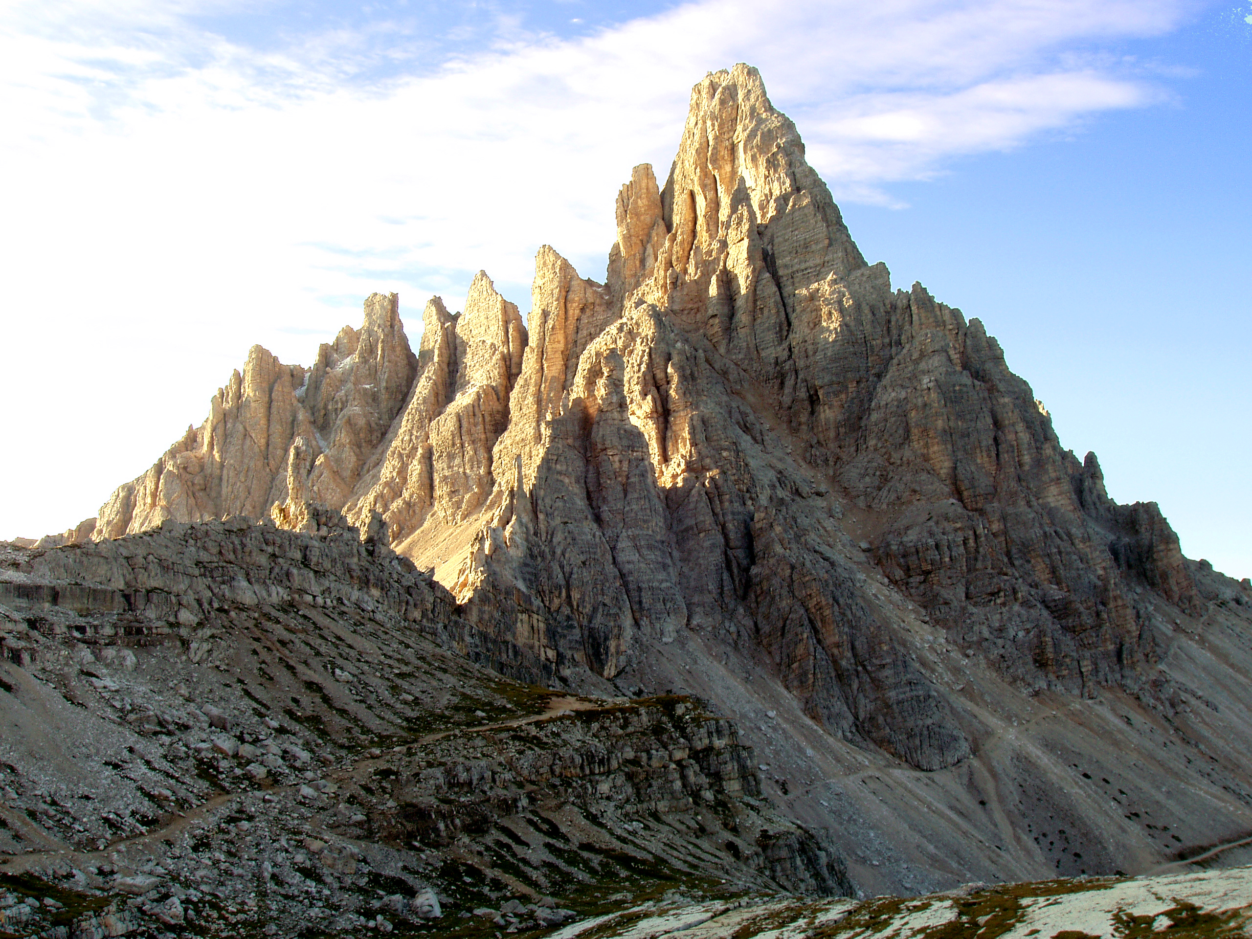 Paternkofel, a mountain in the Sexten Dolomites, where Sepp Innerkofler found his fate in World War I during an attempt to storm the summit, that was held by the Italian Alpini fighters.